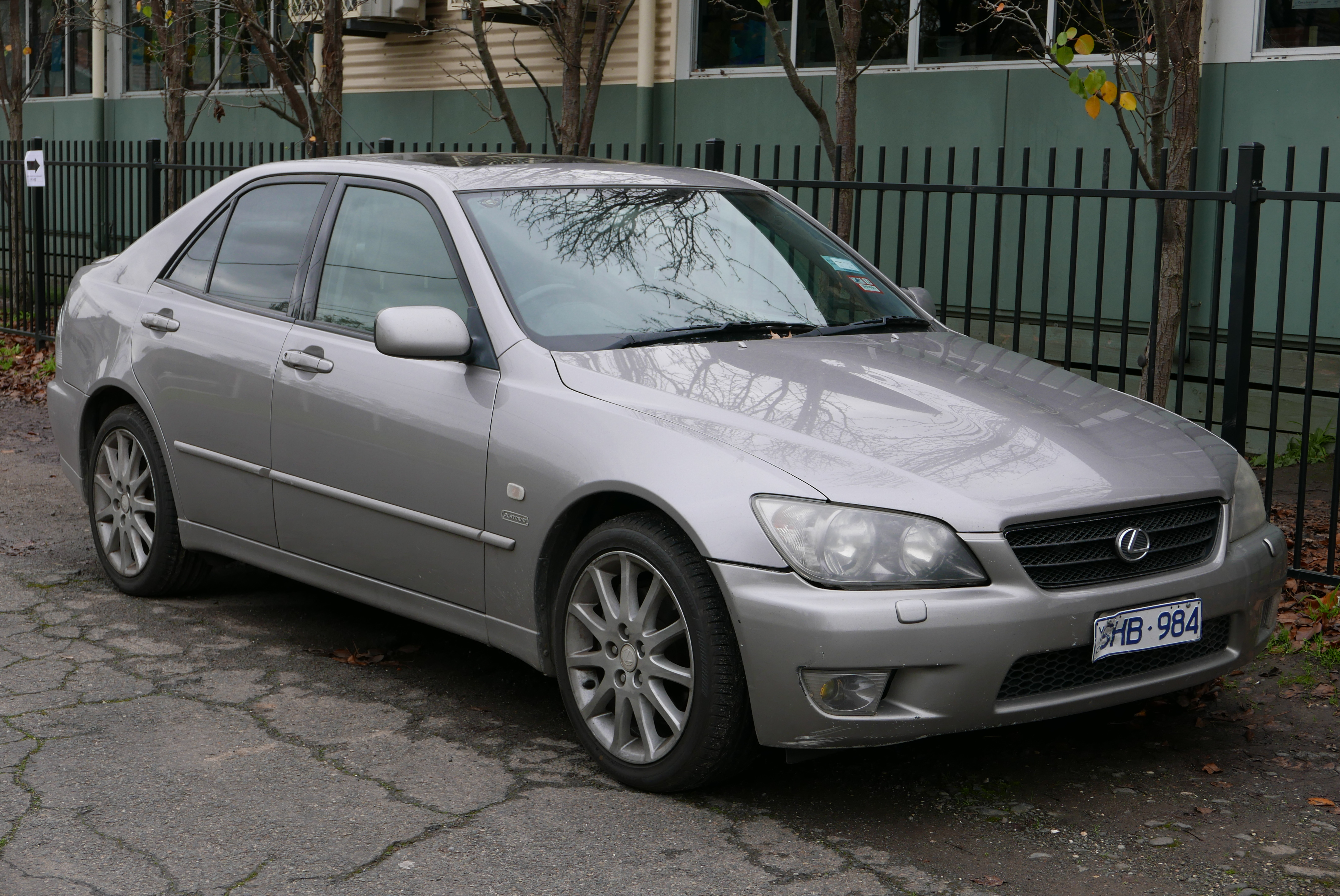 2003 Lexus IS 300 (JCE10R) Platinum Edition sedan. Photographed in Alphington, Victoria, Australia. Vehicle registration enquiry resultsJurisdictionVictoriaRegistrationSHB984Chassis codeJTDBD192600081707Engine code2JZ1073880Compliance date2003-09Year of manufacture2003